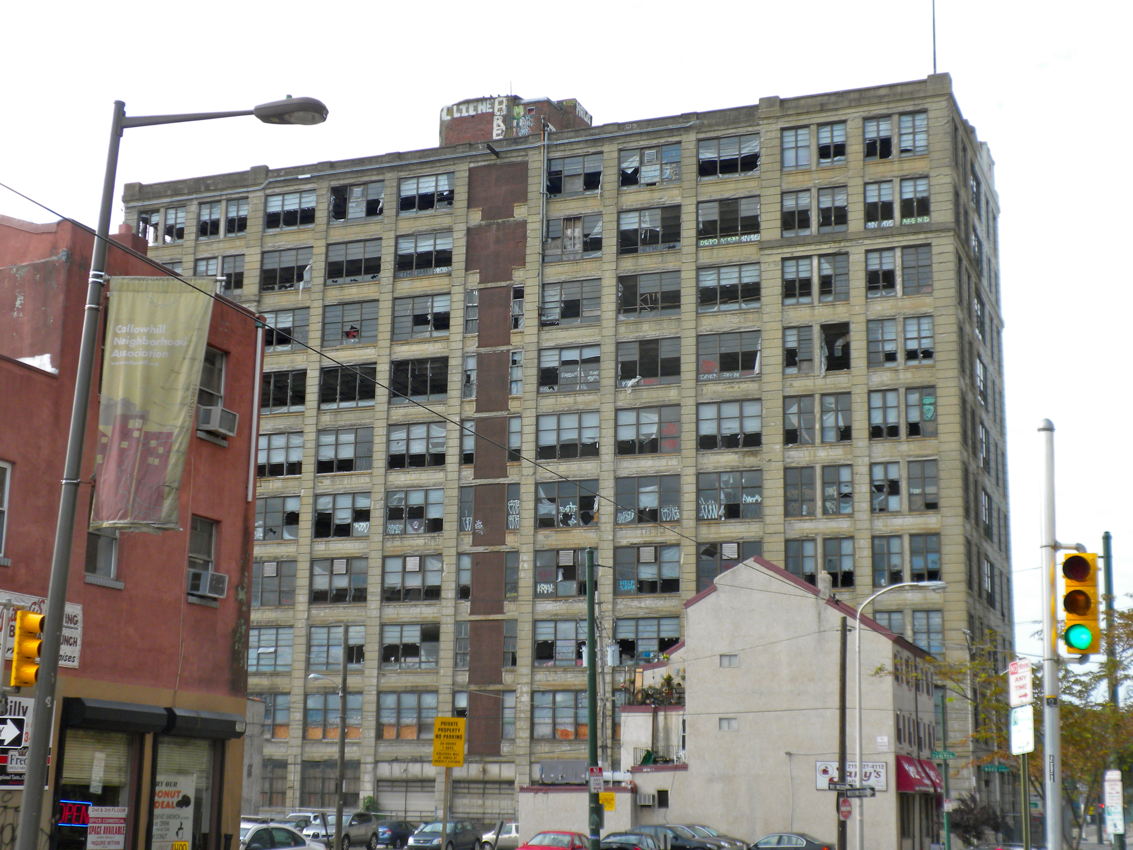 Callowhill Industrial Historic District in Philadelphia, on the NRHP since June 28, 2010. The Historic District is just north of Center City, roughly bounded by Pearl St., North Broad St., Hamilton St., and the Reading Railroad Viaduct, in the Callowhill neighborhood. This particular building is between Pearl and Wood on 12th street.